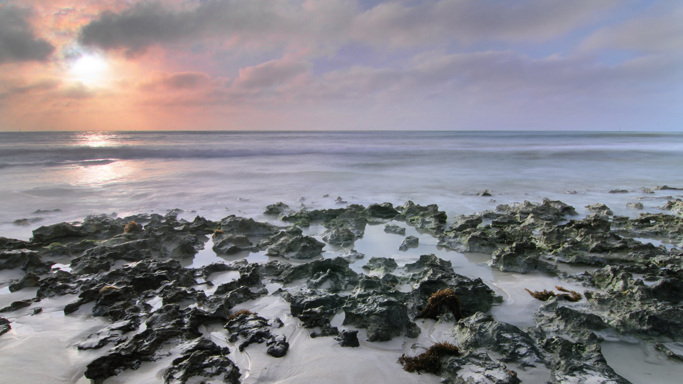 St Georges Beach at the southern end of Bluff Point, Geraldton, Western Australia